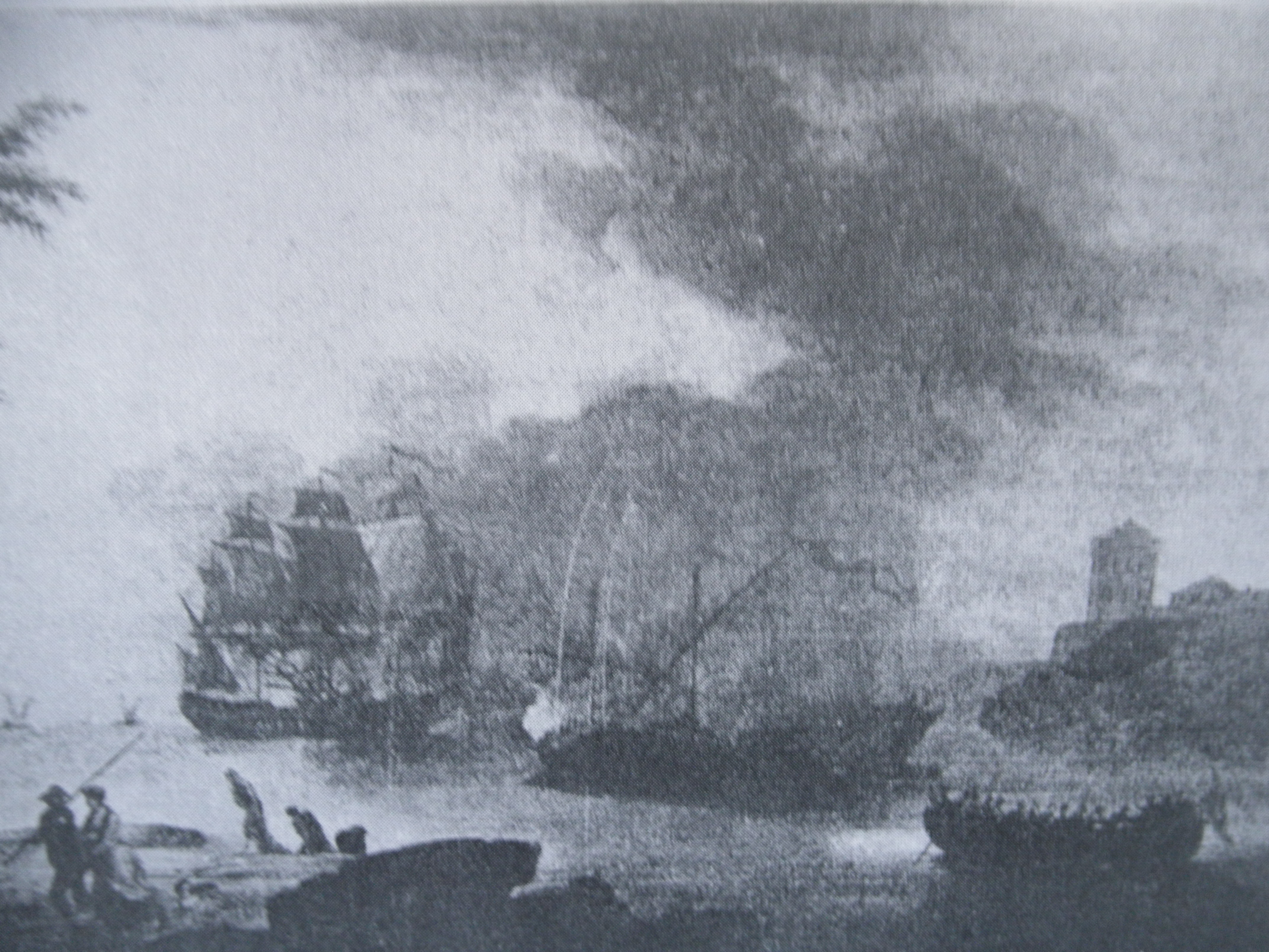 combat naval kapeller